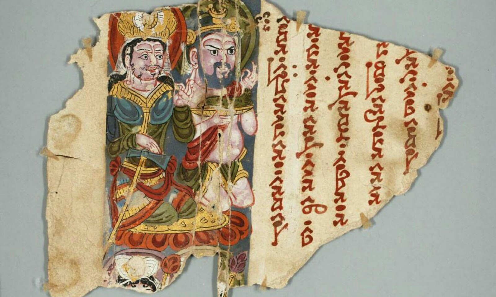 Leaf from a Manichaean book, Khocho, Temple α., ca. 8th-9th. Manuscript painting, 8.2 x 11.0 cm. MIK III 4959 recto.